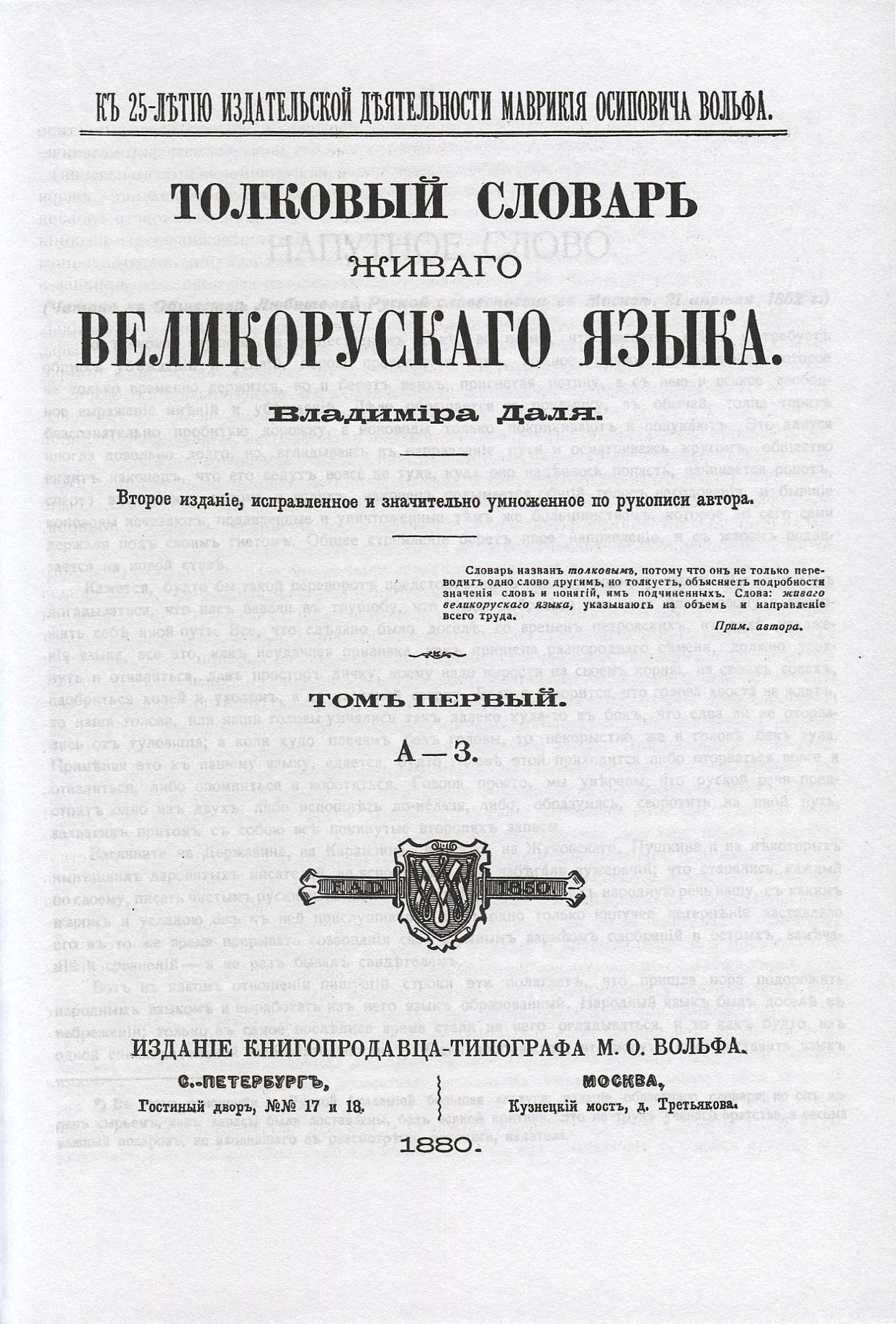 Title of Explanatory Dictionary of the Live Great Russian language. 2nd ed. (1880–1883), Vol. 1.